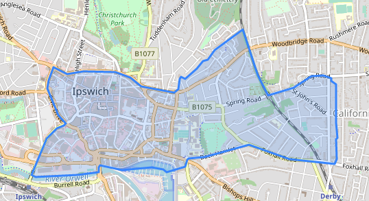 Open Street Map with area shaded blue for Alexandra Ward, Ipswich